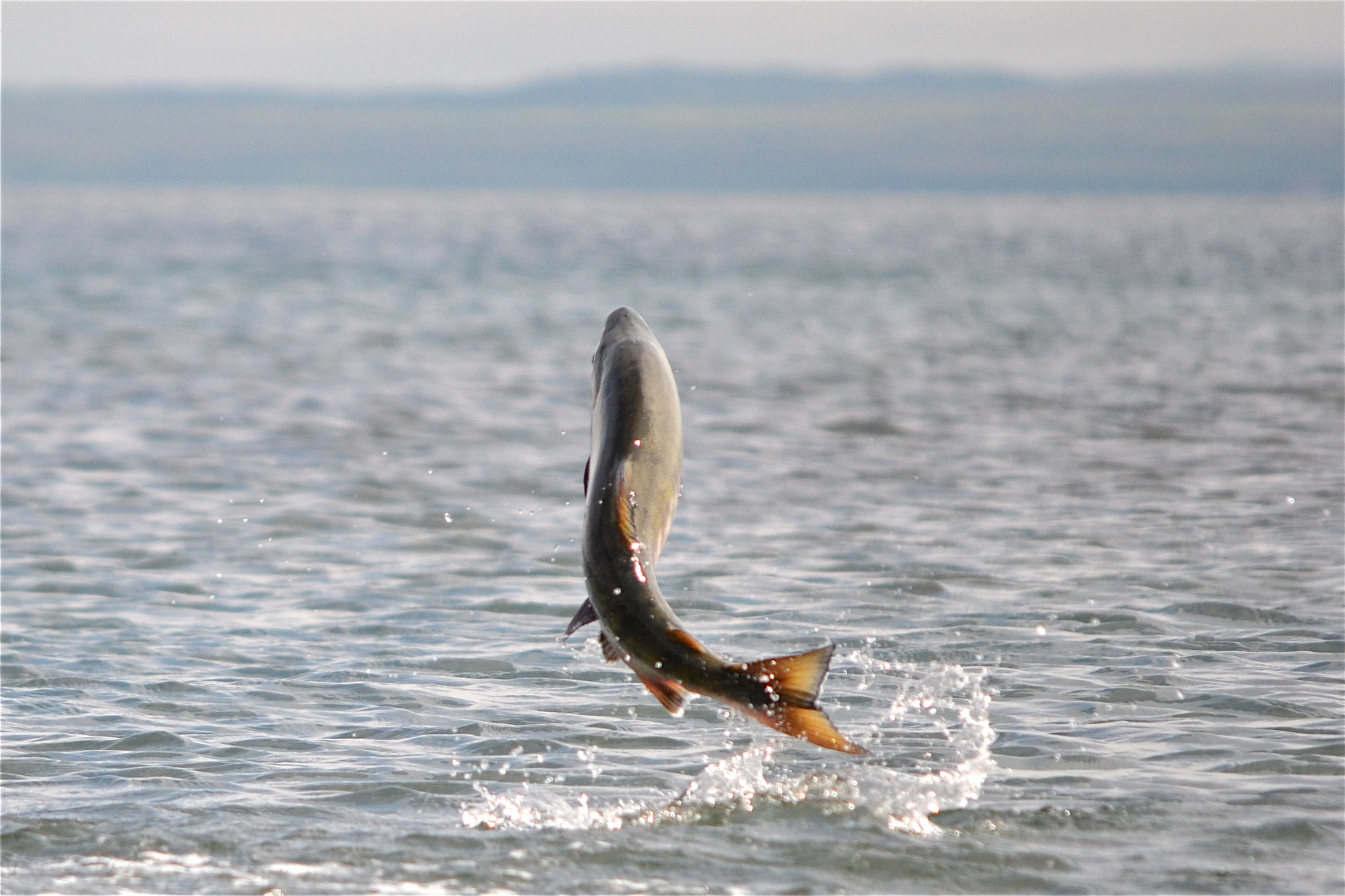 Cold Bay, AK Photo: K. Mueller, USFWS